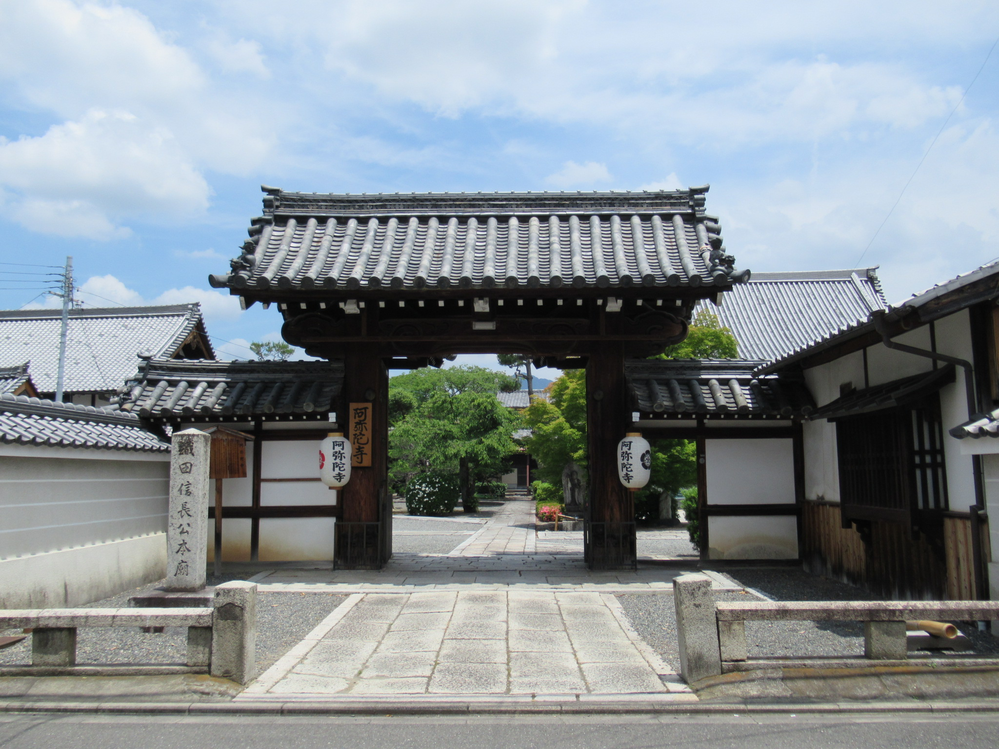 Amidaji, Kamigyo-ku, Kyoto.